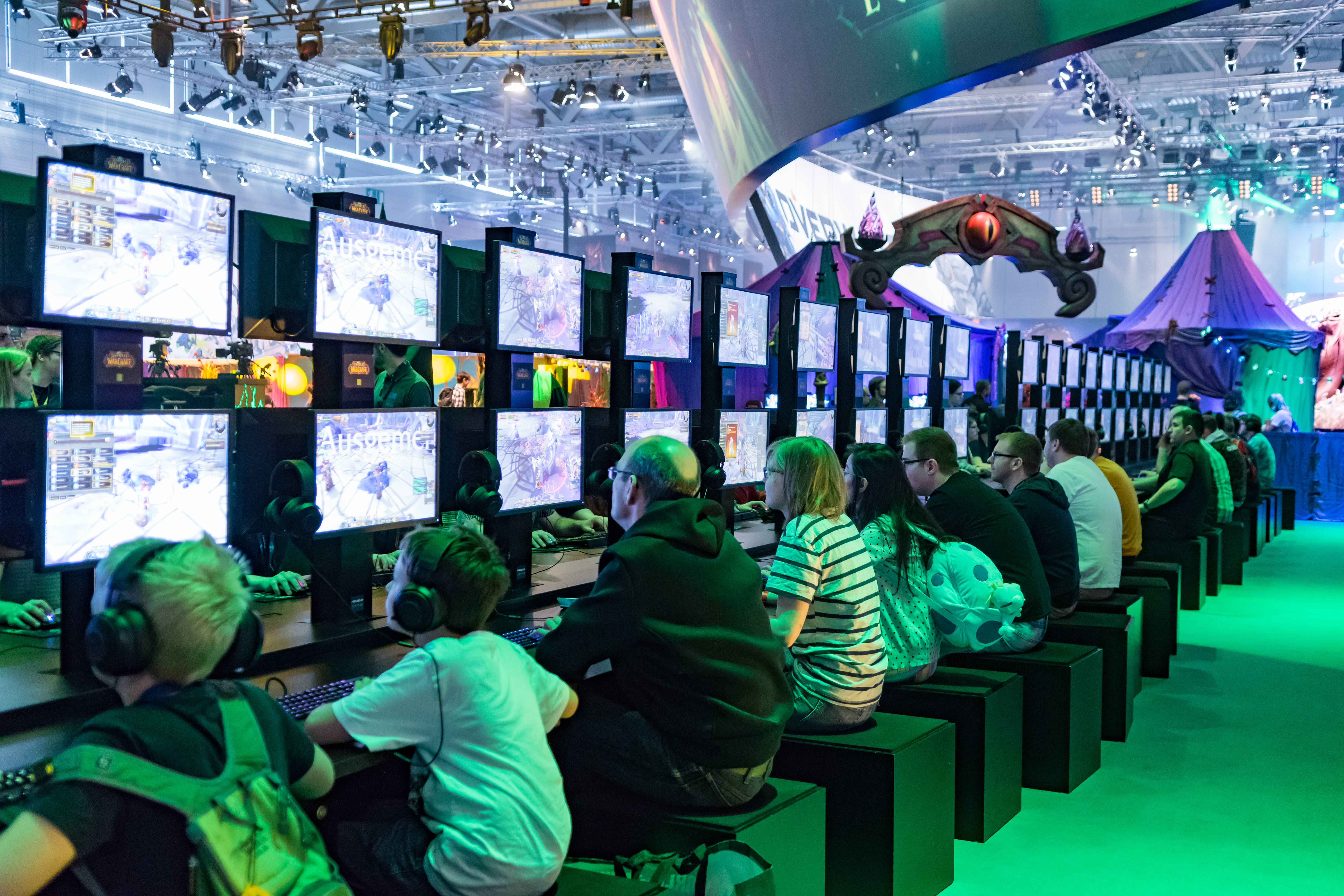 World of Warcraft Legion Gamescom 2017